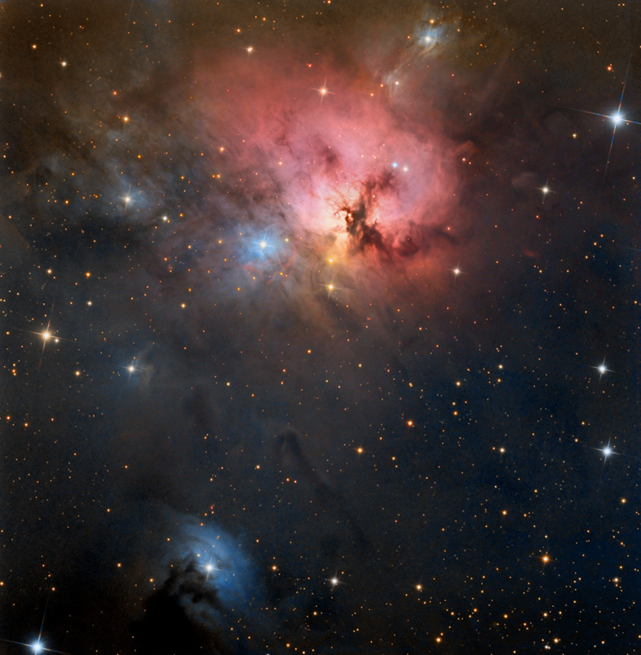 Deep exposures of Nebulae using the 0.8m Schulman Telescope at the Mount Lemmon SkyCenter Credit Line & Copyright Adam Block/Mount Lemmon SkyCenter/University of Arizona